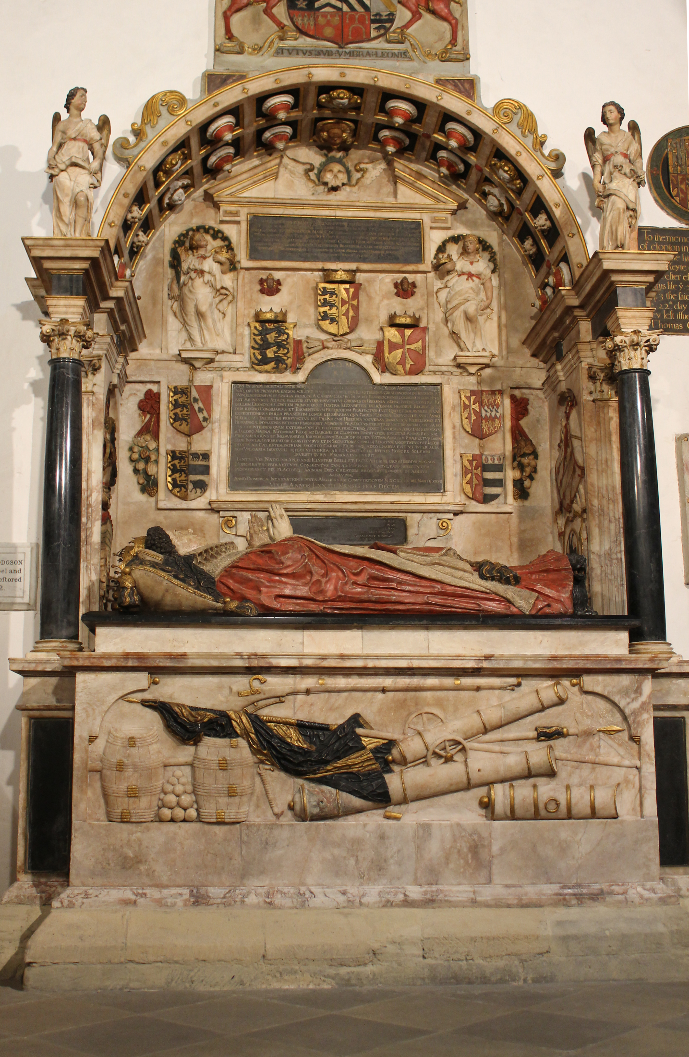 Monument to George Carew, 1st Earl of Totnes (d 1629) and his wife Joyce Clopton (d 1635). Clopton Chapel, Church of the Holy Trinity, Stratford-upon-Avon (dedicated to the memory of Sir Hugh Clopton (d.1496))